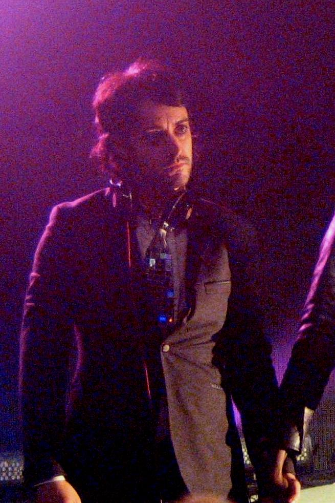 Space Cowboy performing with Lady Gaga